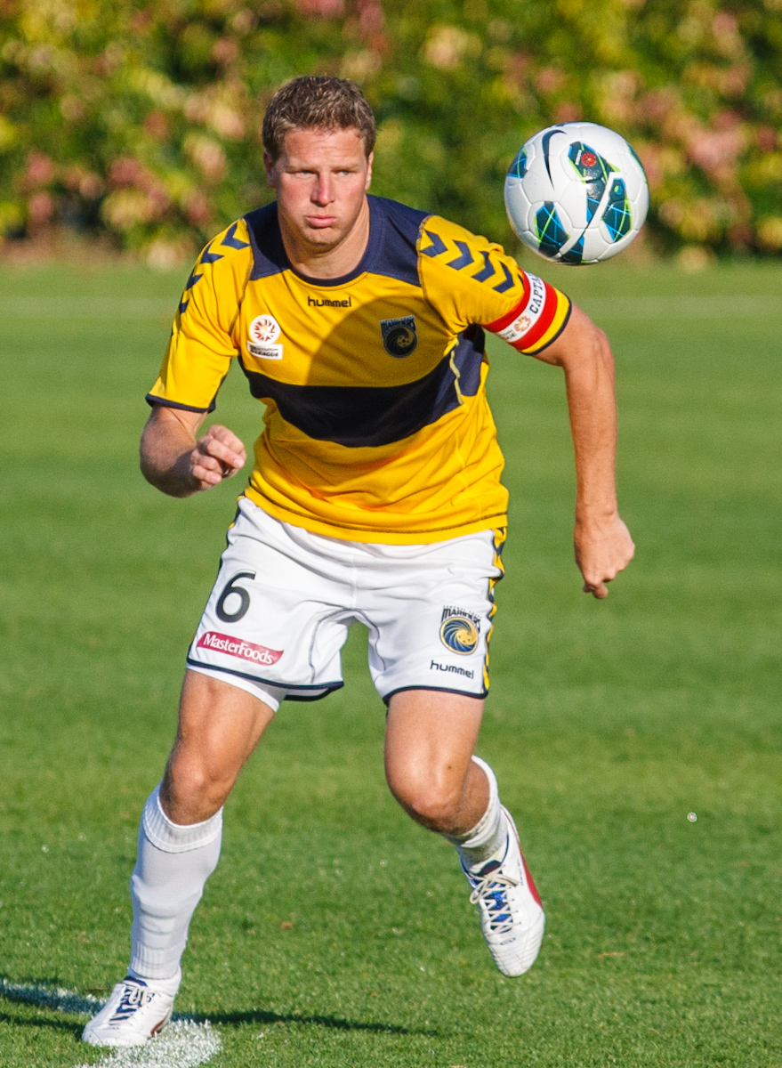 Patrick Zwaanswijk playing in a pre-season game between the Central Coast Mariners and Melbourne Victory on 16/09/2012.